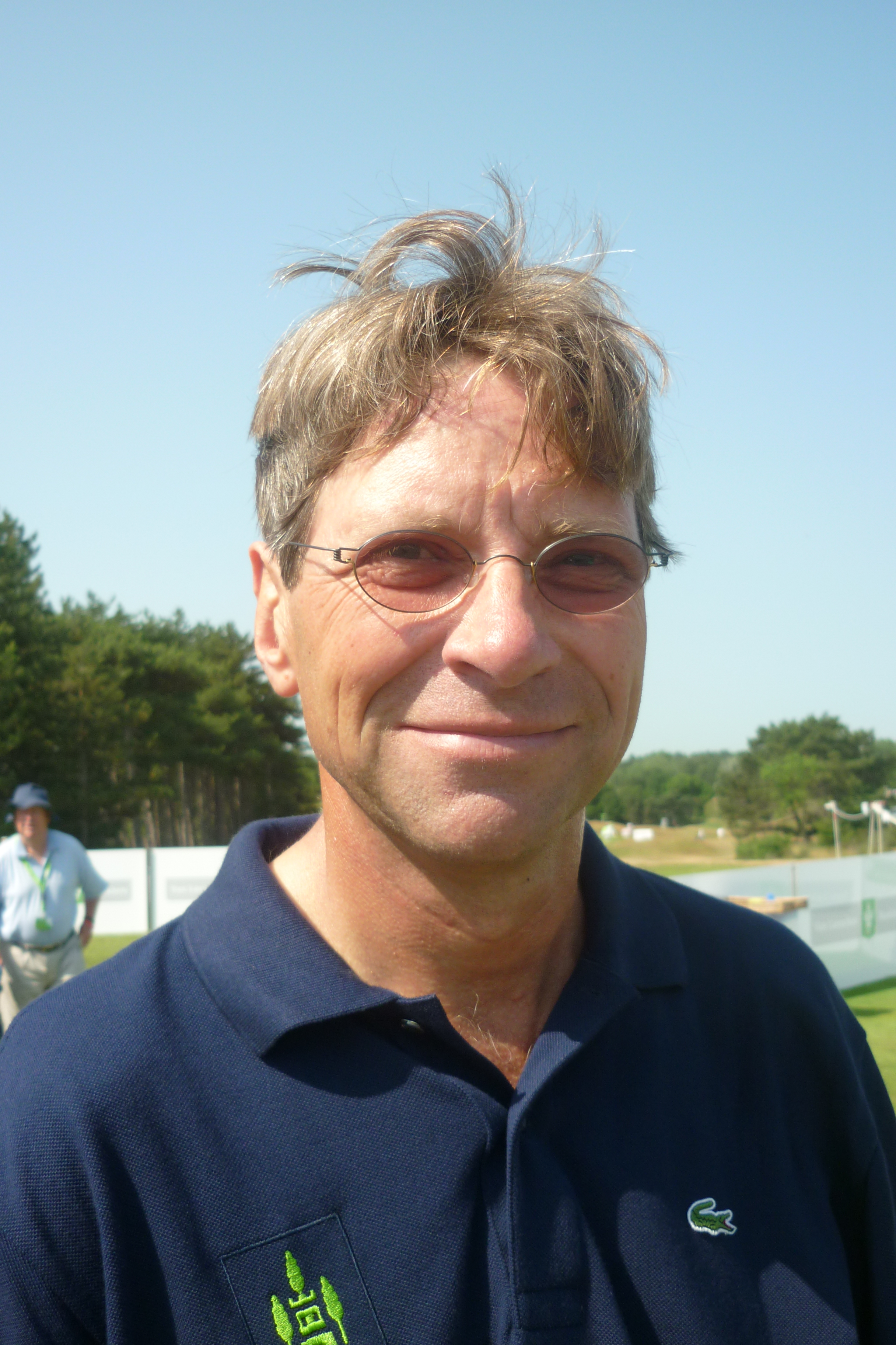 Bart Nolte, Dutch amateur playing Van Lanschot Senior Open